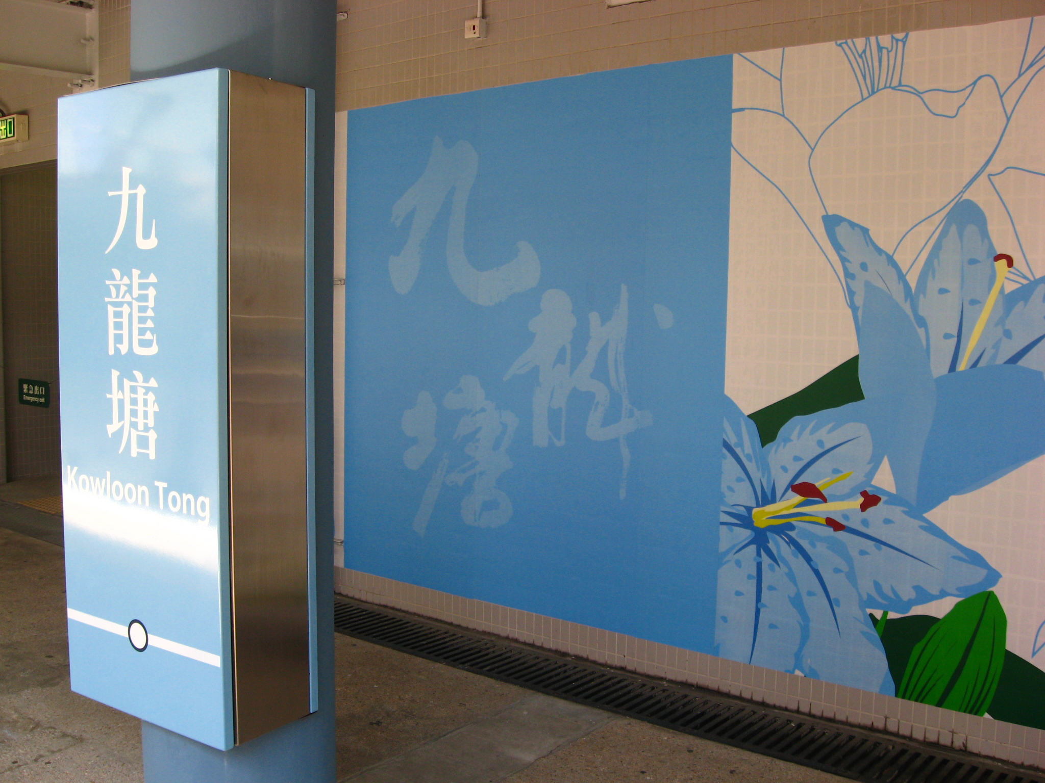 Kowloon Tong MTR Station, Hong Kong 中文（香港）: 香港港鐵九龍塘站